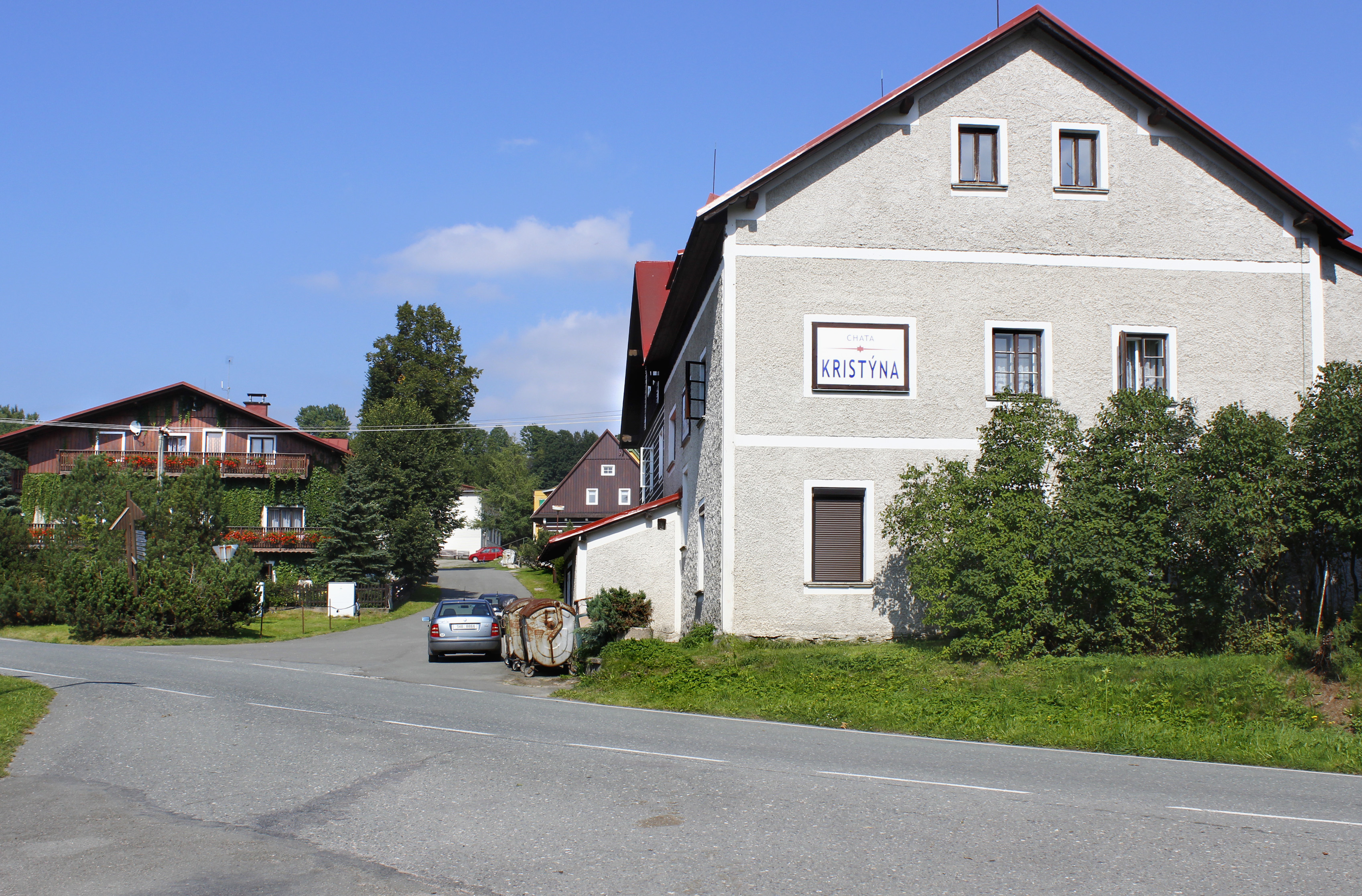 Jedlová, part of Deštné v Orlických horách, Czech Republic